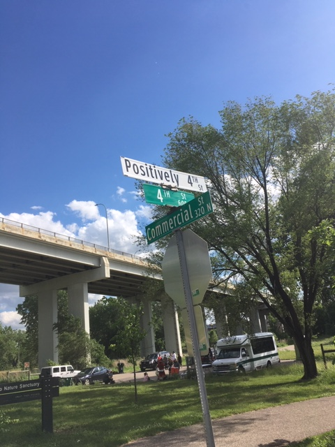 To commemorate the work of Bob Dylan, a native born Minnesotan, the St. Paul MN City Council allowed 4th Street to be placarded as "Positively 4th Street". This is the title of one of his songs, although it apparently does not refer to this particular road.